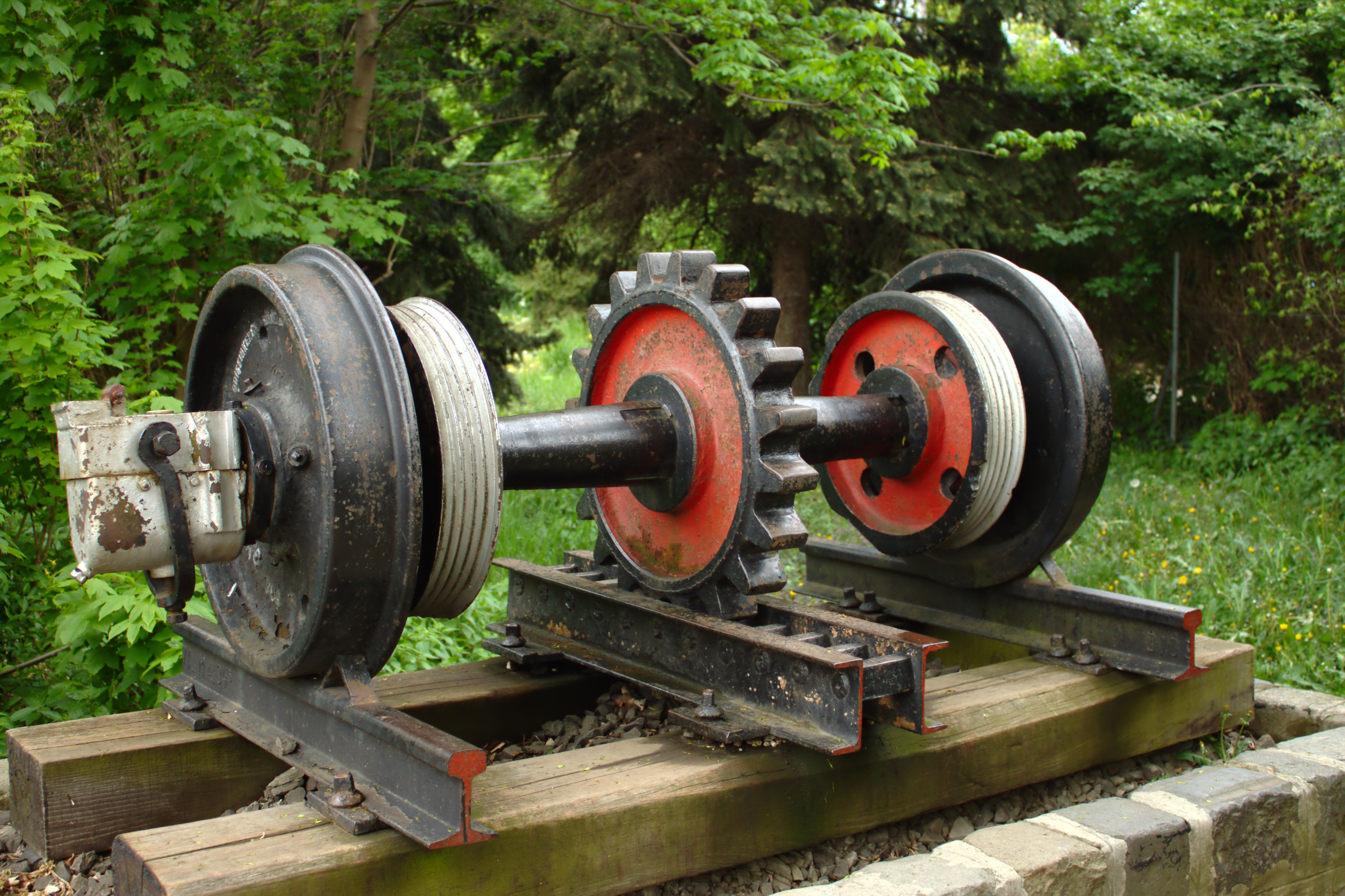 Budapest Cog Railway monument near Városmajor park, Budapest, Hungary